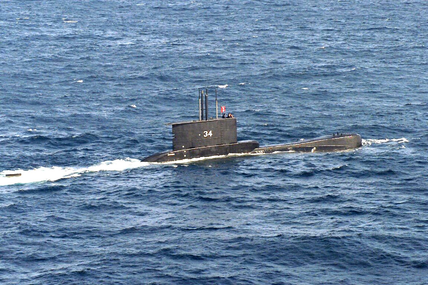 030604-N-0770G-005 The Pacific Ocean (Jun. 4, 2003) -- As Peruvian Navy Vessel BAP Chipana (SS 34) surfaces, the aircrew assigned to the “Grandmasters” of Light Helicopter Anti-submarine Squadron Forty Six (HS-46) take the opportunity to snap a photo. Due to the quietness of its diesel engine, Chipana provided challenging training to the aircraft and ship crews participating in Silent Force Exercise (SIFOREX).